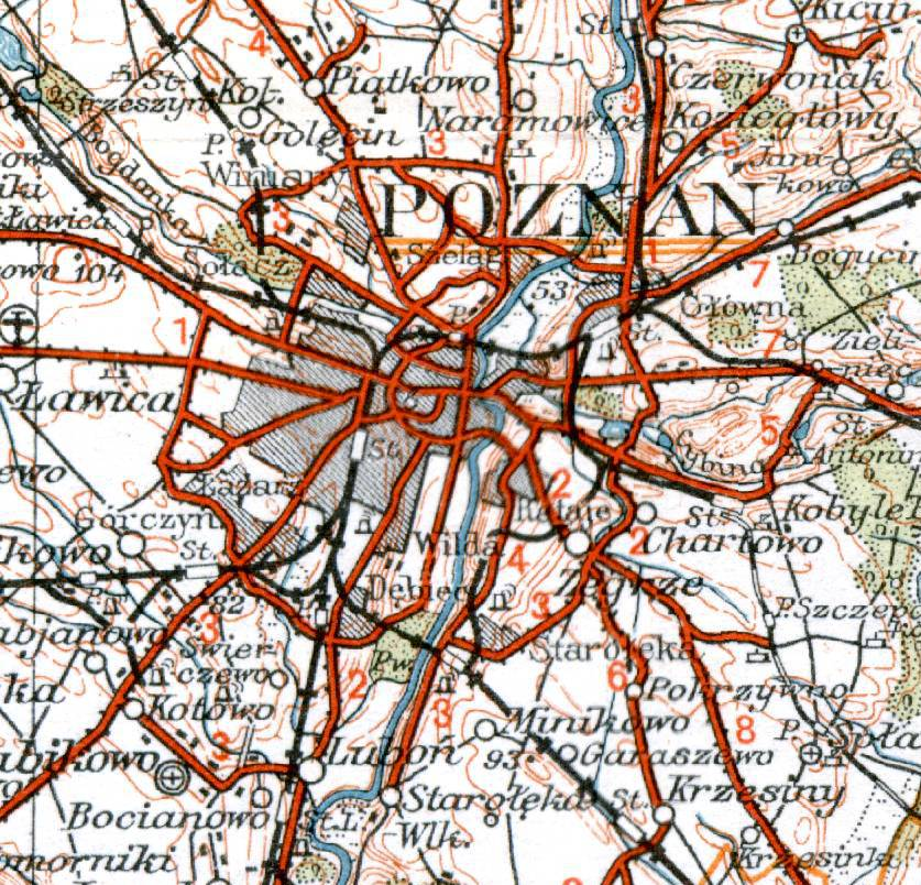 Operational map of Poland and neighbouring countries, region Poznań. Scale of 1:300000.